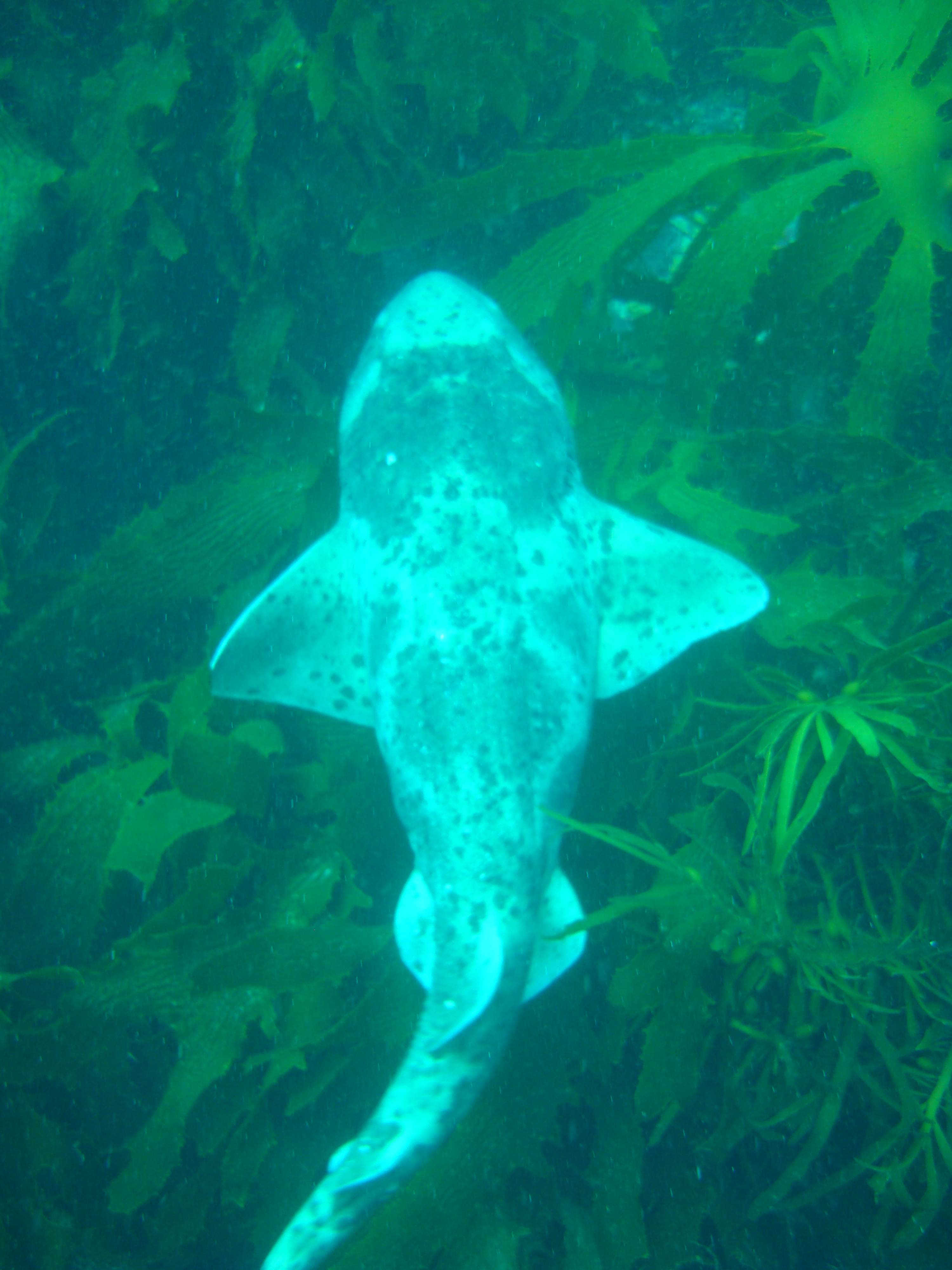 Draughtboard shark (Cephaloscyllium laticeps)